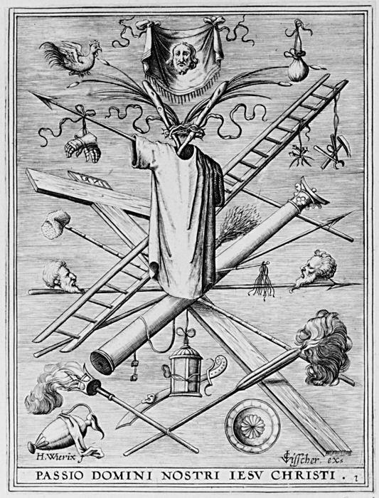 Print; Prints